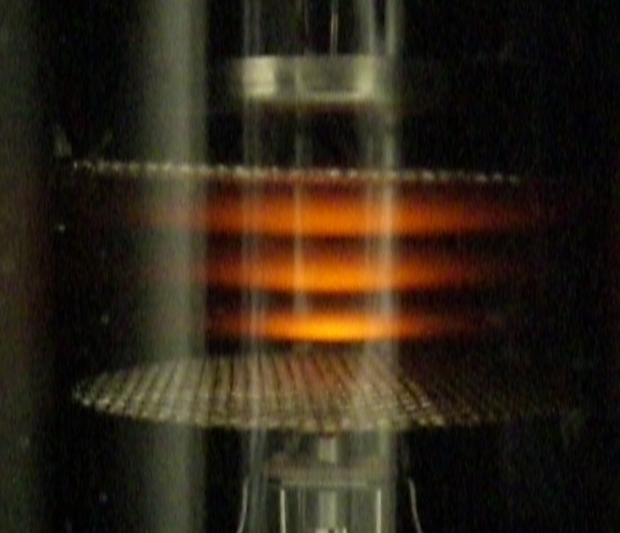 Franck-Hertz experiment with neon gas showing three luminous layers.